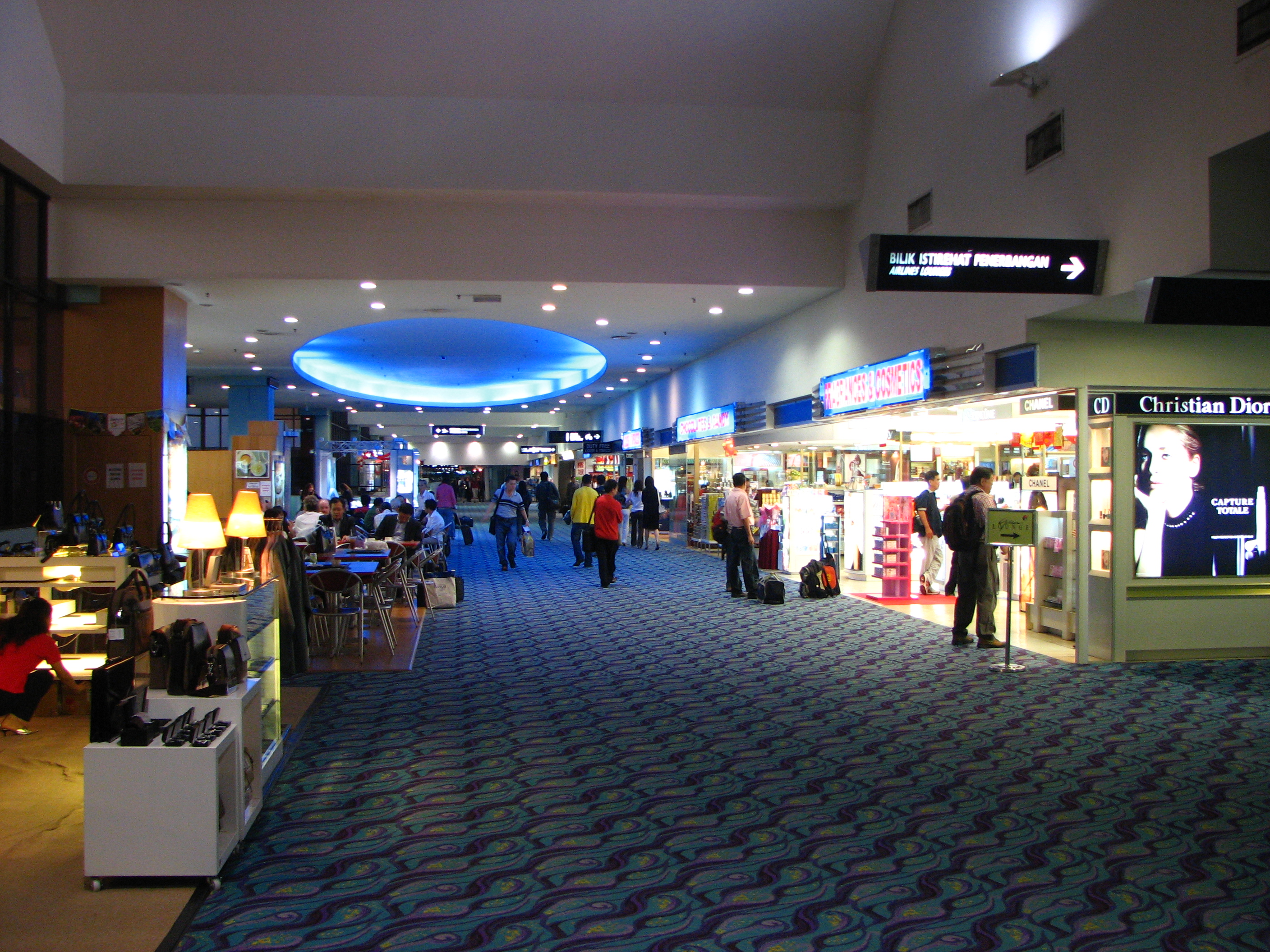 International departure area of Penang Airport